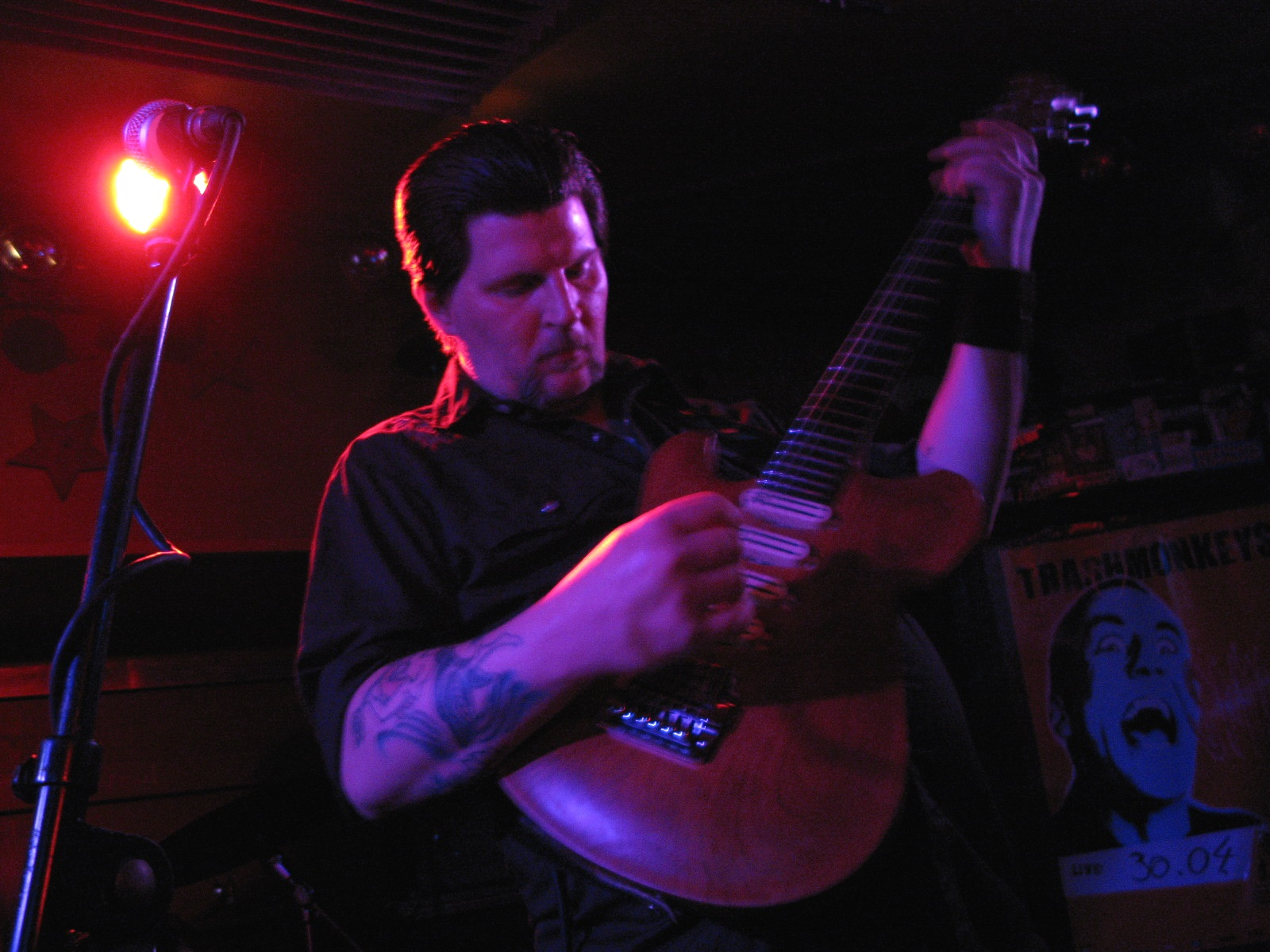 Earth live in Hamburg 2009